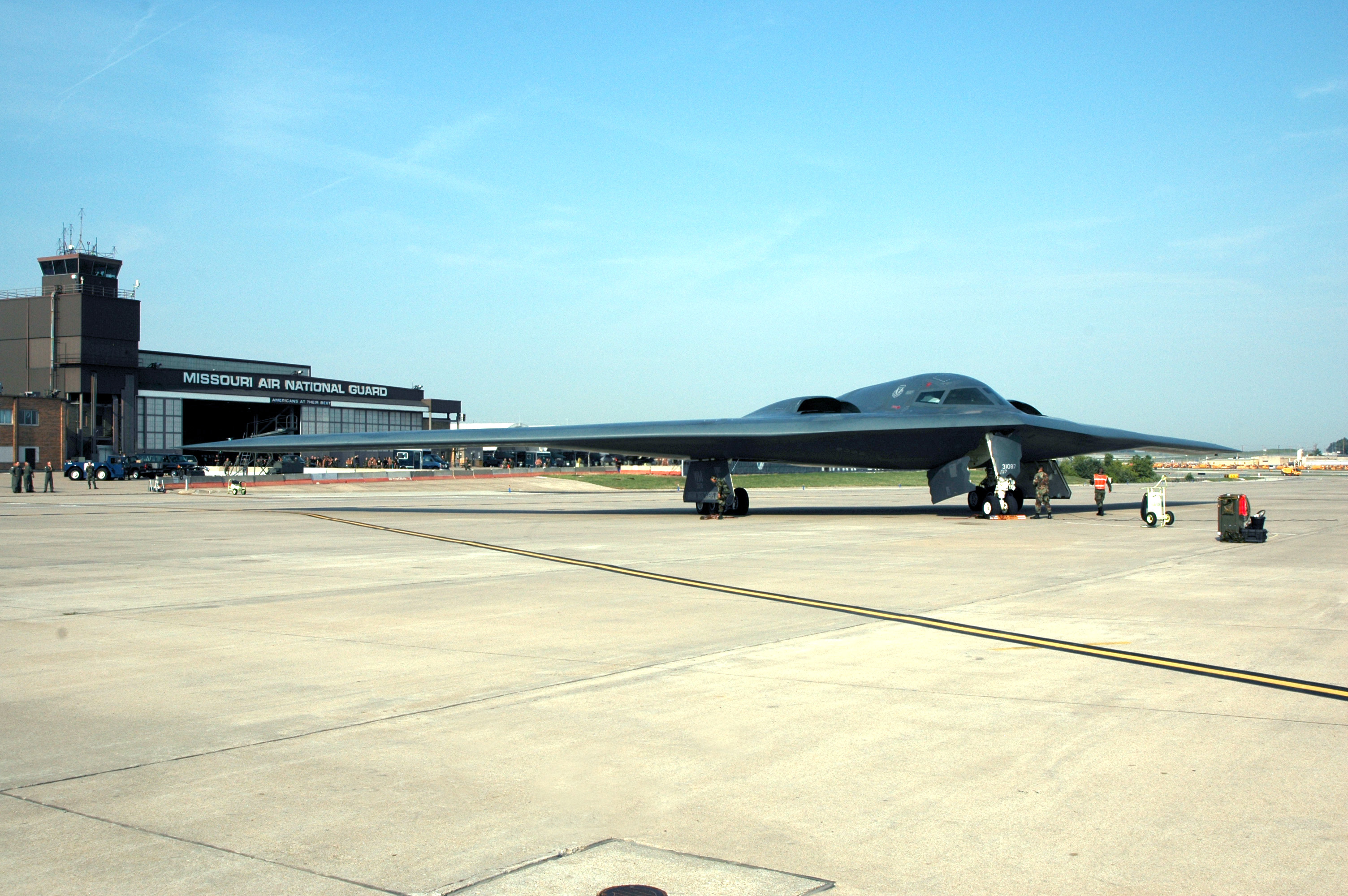 A U.S. Air Force B-2 Spirit stealth bomber sits on the tarmac at the 131st Fighter Wing at Lambert International Airport in St. Louis, Missouri (USA), in 2006.